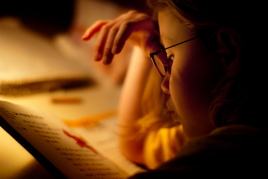 Studying